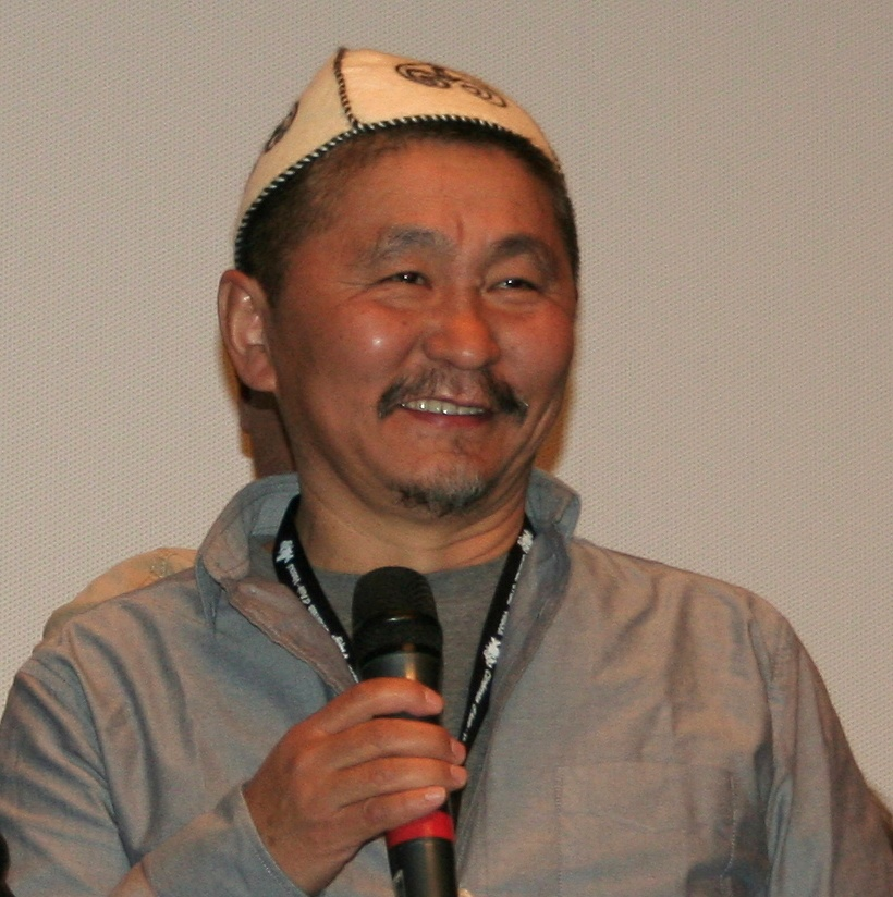 Aktan Arym Kubat (Aktan Abdykalikov) at 17th FICA in Vesoul